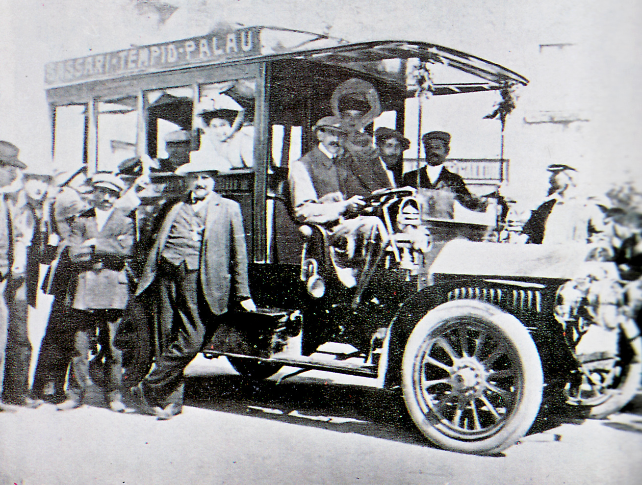 1907 first public road transport Sassari-Tempio-Palau Sardinia.